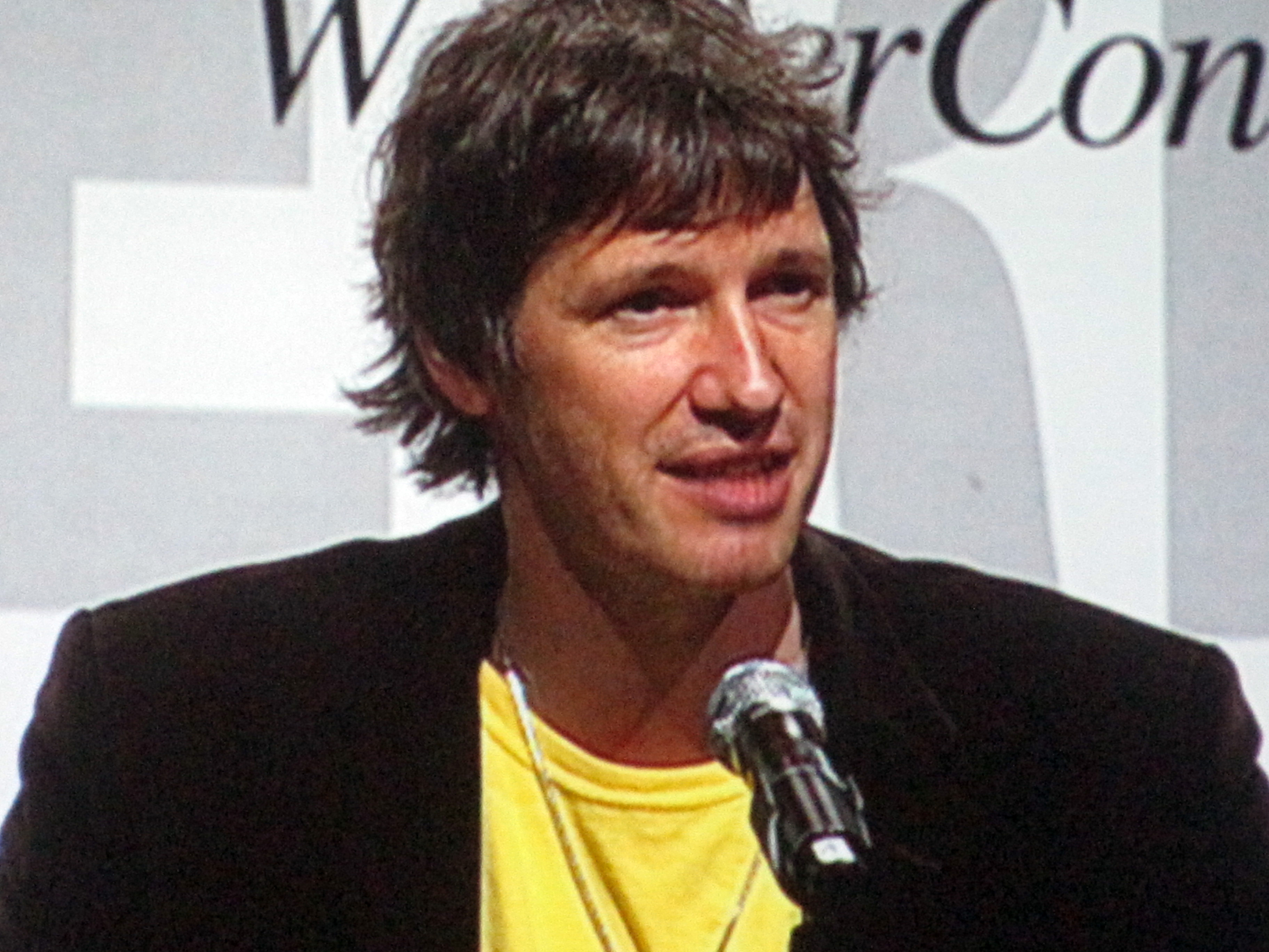 Paul W. S. Anderson, director of Resident Evil: Afterlife, discusses the film at a panel at WonderCon 2010.